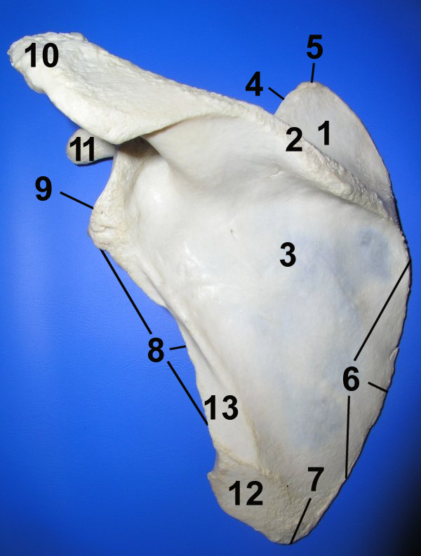 Scapula: Facies dorsalis1 Fossa supraspinata, 2 Spina scapulae, 3 Fossa infraspinata, 4 Margo superior, 5 Angulus superior, 6 Margo medialis, 7 Angulus inferior, 8 Margo lateralis, 9 Angulus lateralis, 10 Acromion, 11 Processus coracoideus, 12 orgin of Musculus teres major, 13 origin of Musculus teres minor